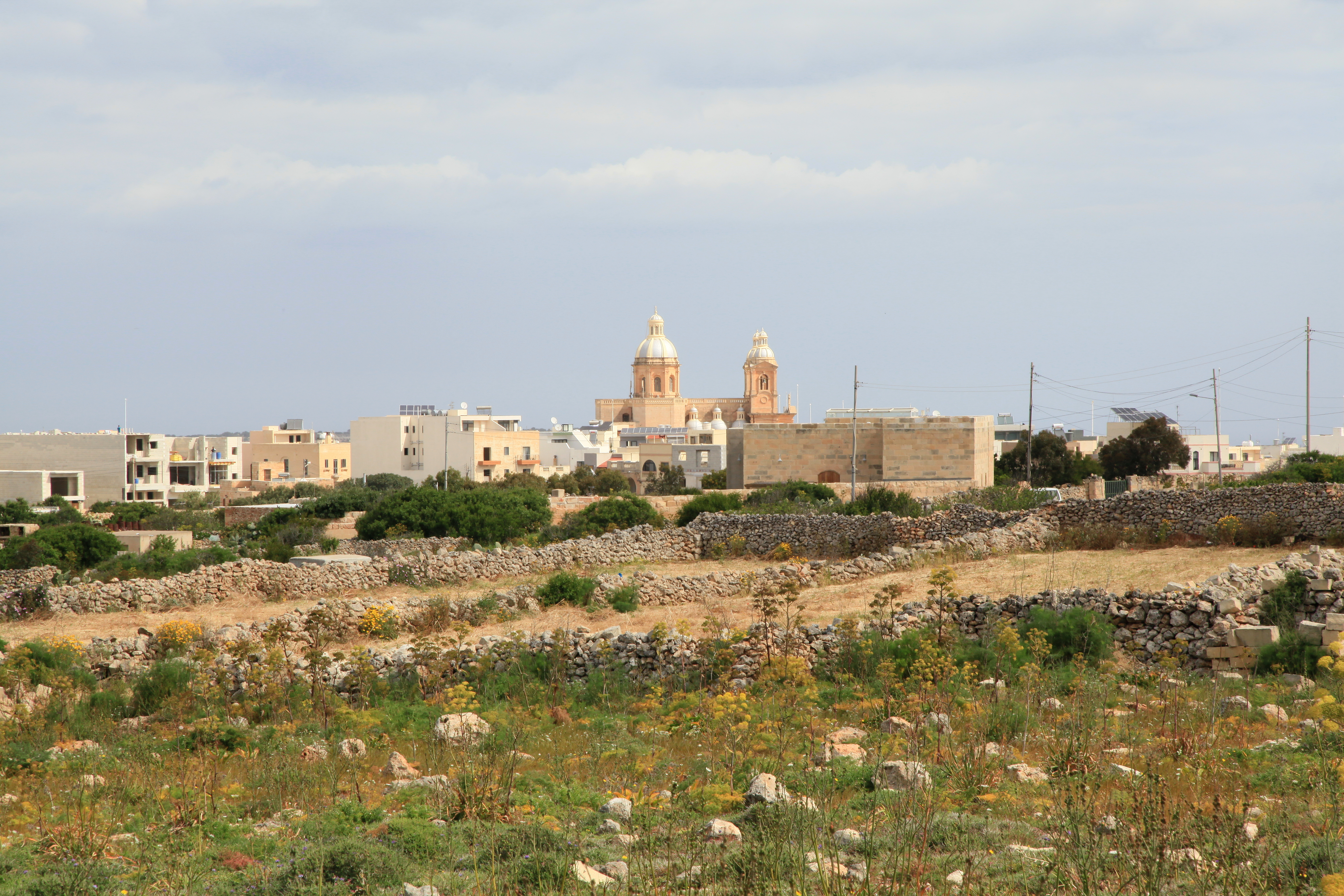 View from Triq Panoramika to Dingli, Malta